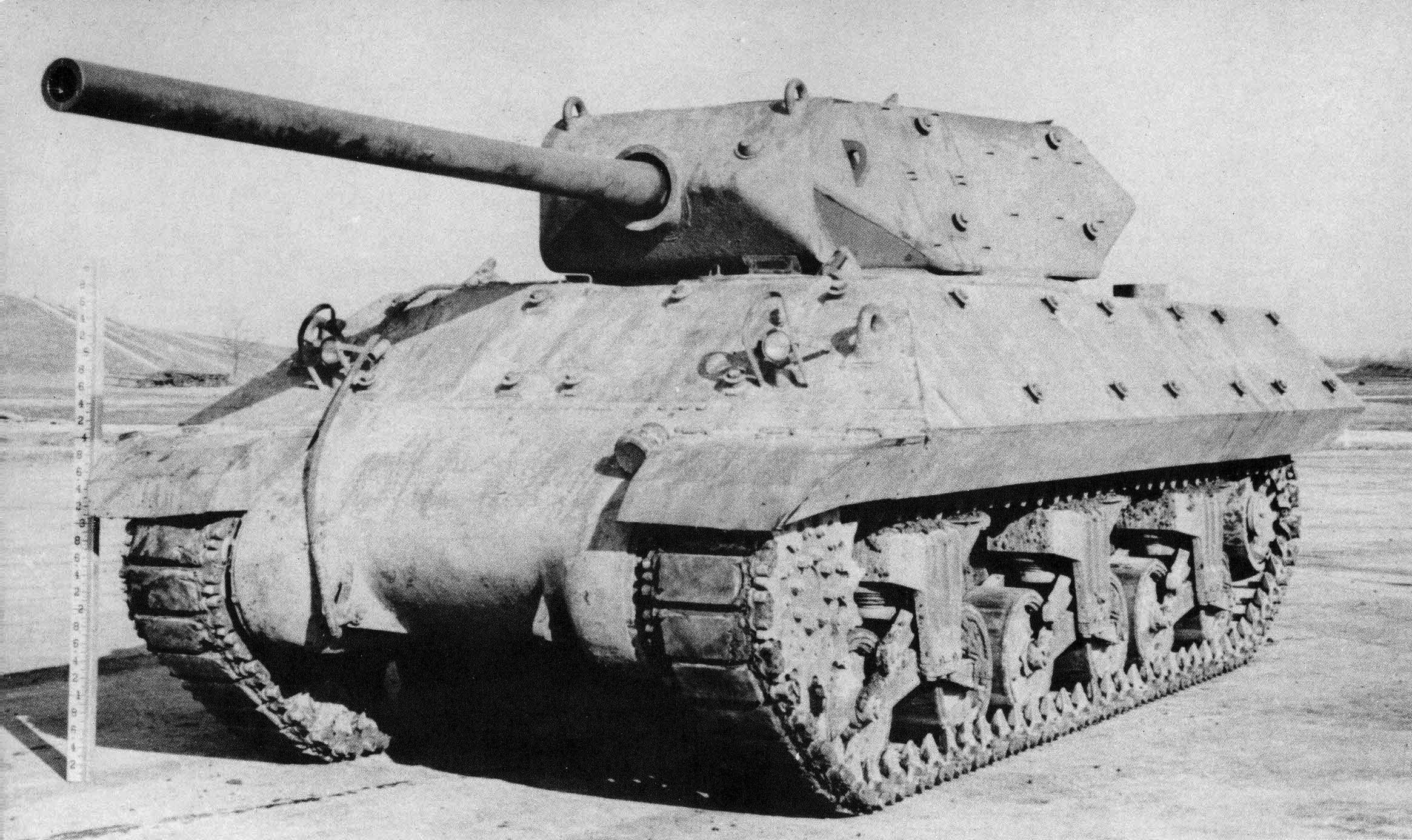 M10 Gun Motor Carriage with 90mm Gun T7 installed, during tests at Aberdeen Proving Ground